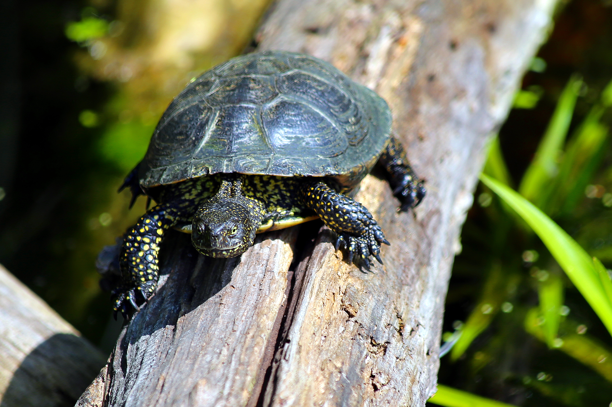 European pond turtle (Emys orbicularis), in Donau-Auen, Austria